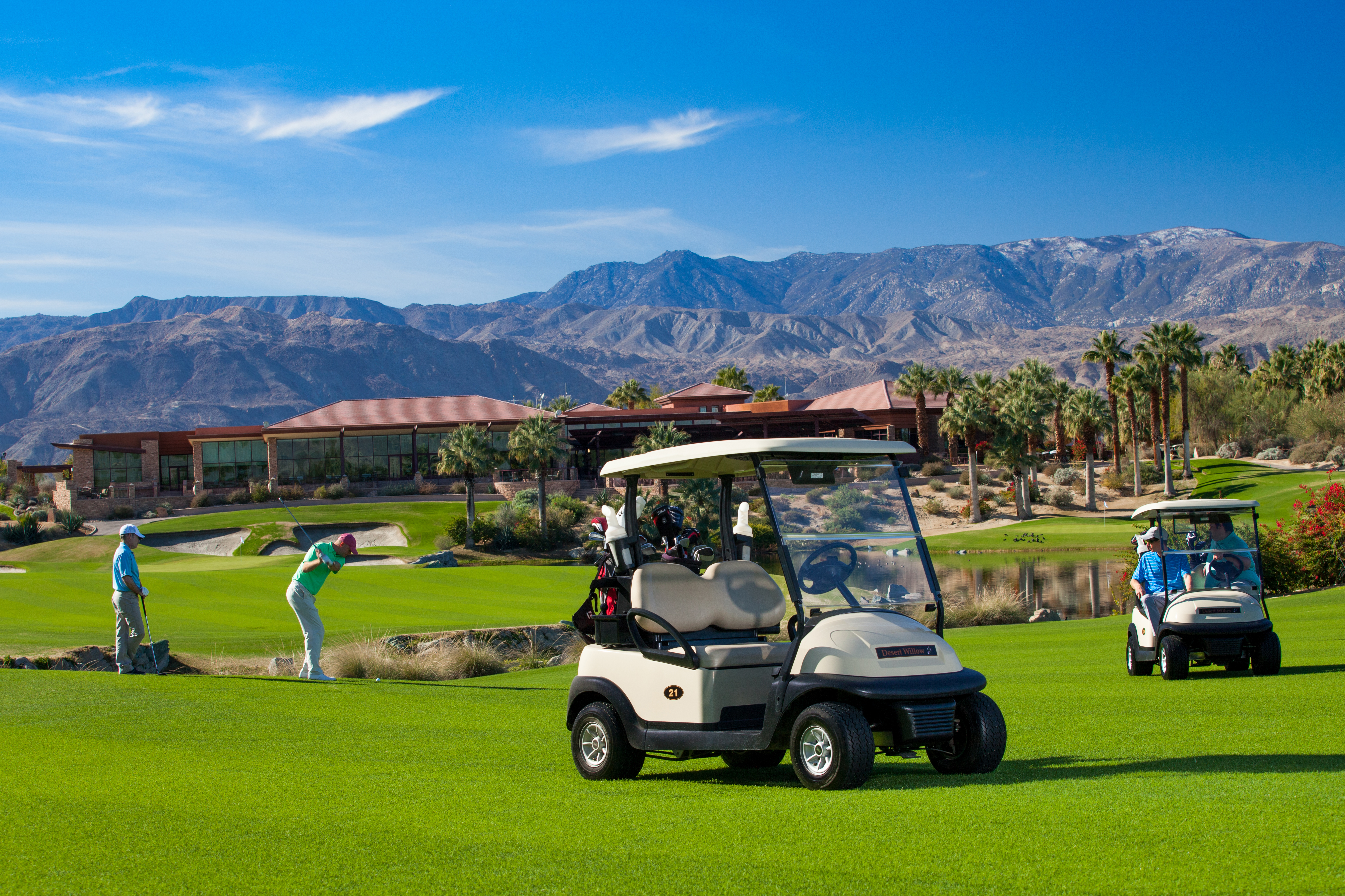 Club Car's Precedent i3 fleet golf car, containing Visage technology. Used with permission from Club Car.